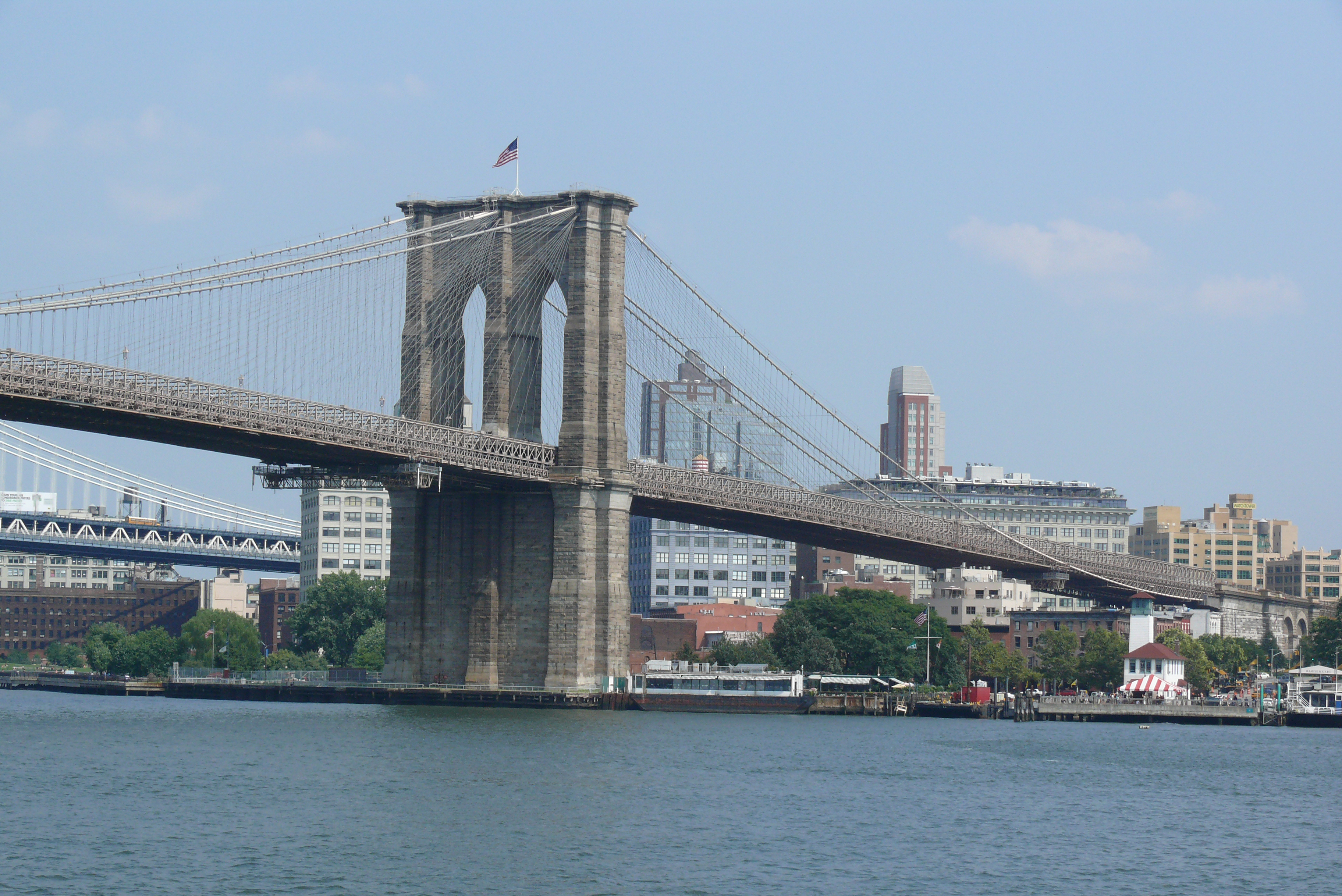 The Brooklyn Bridge is one of the oldest suspension bridges in the United States, stretching 1825 m over the East River, connecting the New York City boroughs of Manhattan and Brooklyn.